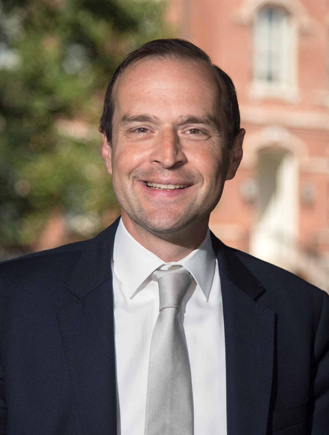 College of Liberal Arts Dean David Reingold (Purdue University/ Mark Simons)